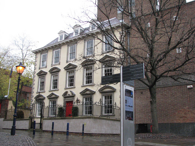 Newdigate House, Castle Gate The French Marshal Tallard, captured by Marlborough at Blenheim in 1704, lived on parole here from 1705-11. This handsome house is now a restaurant. It is hard to imagine the thought processes of the 1960s planning authority which sanctioned the ugly brick slab stuck on the right and the tower block behind. Click to find out more about the estimable Camille d'Hostun de la Baume, duc de Tallard, and celery.